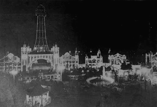 The Original Tūtenkaku and Shinsekai Luna Park at night